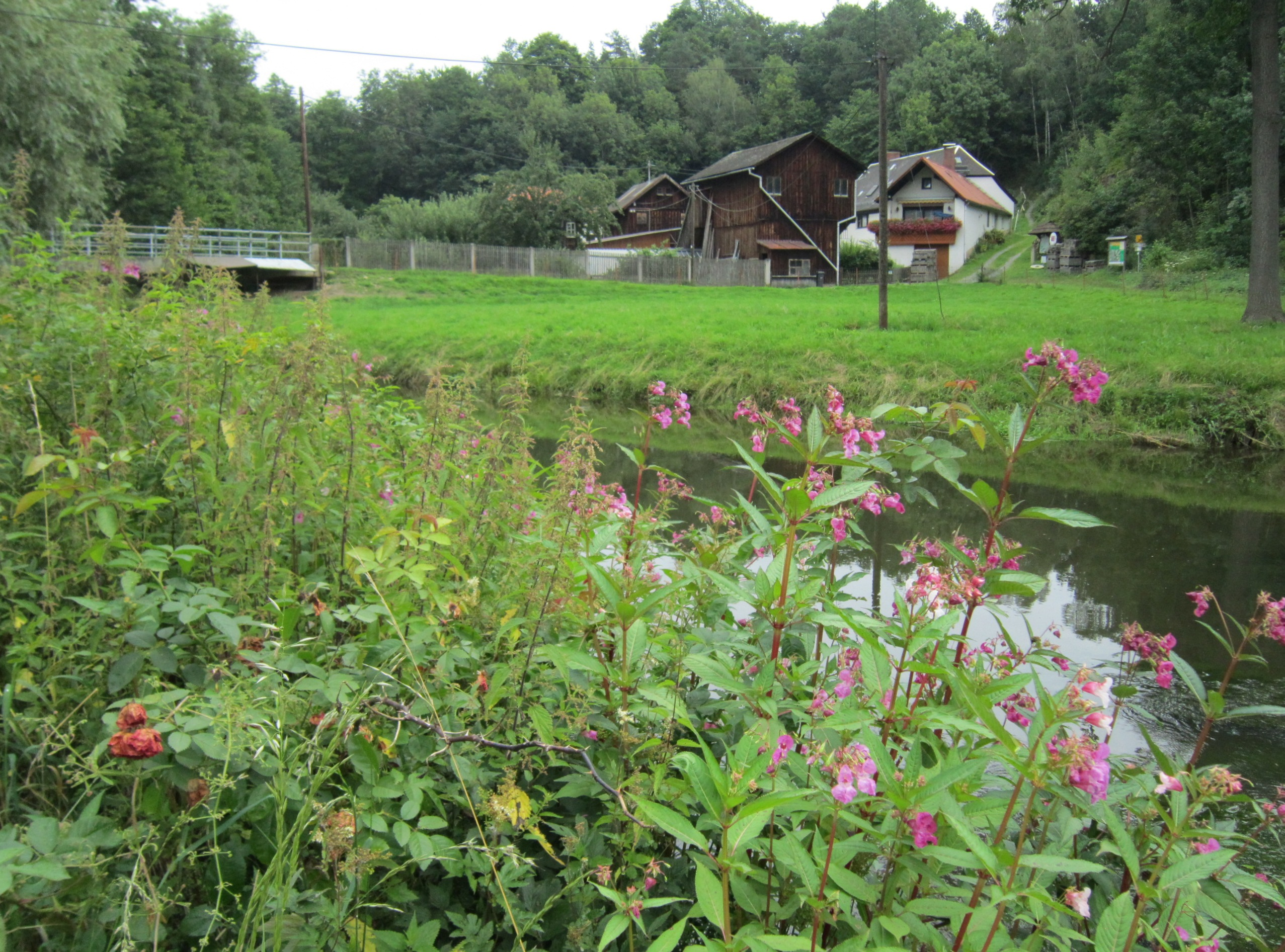 River Eger (Ohre) near Hammermühle (City of Hohenberg an der Eger); immediately on the right side of the houses the German-Czech border